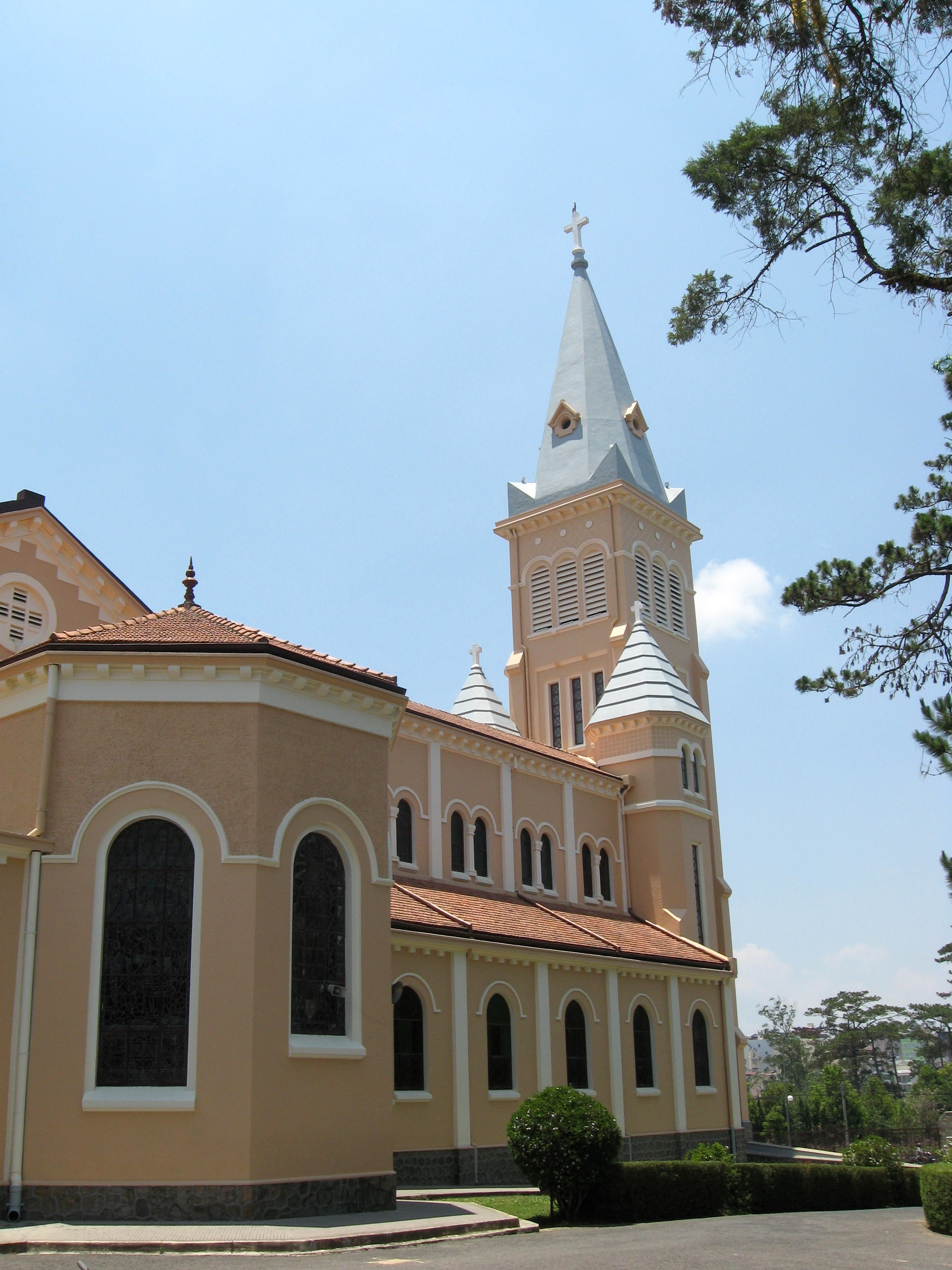 Cathedral of Da Lat